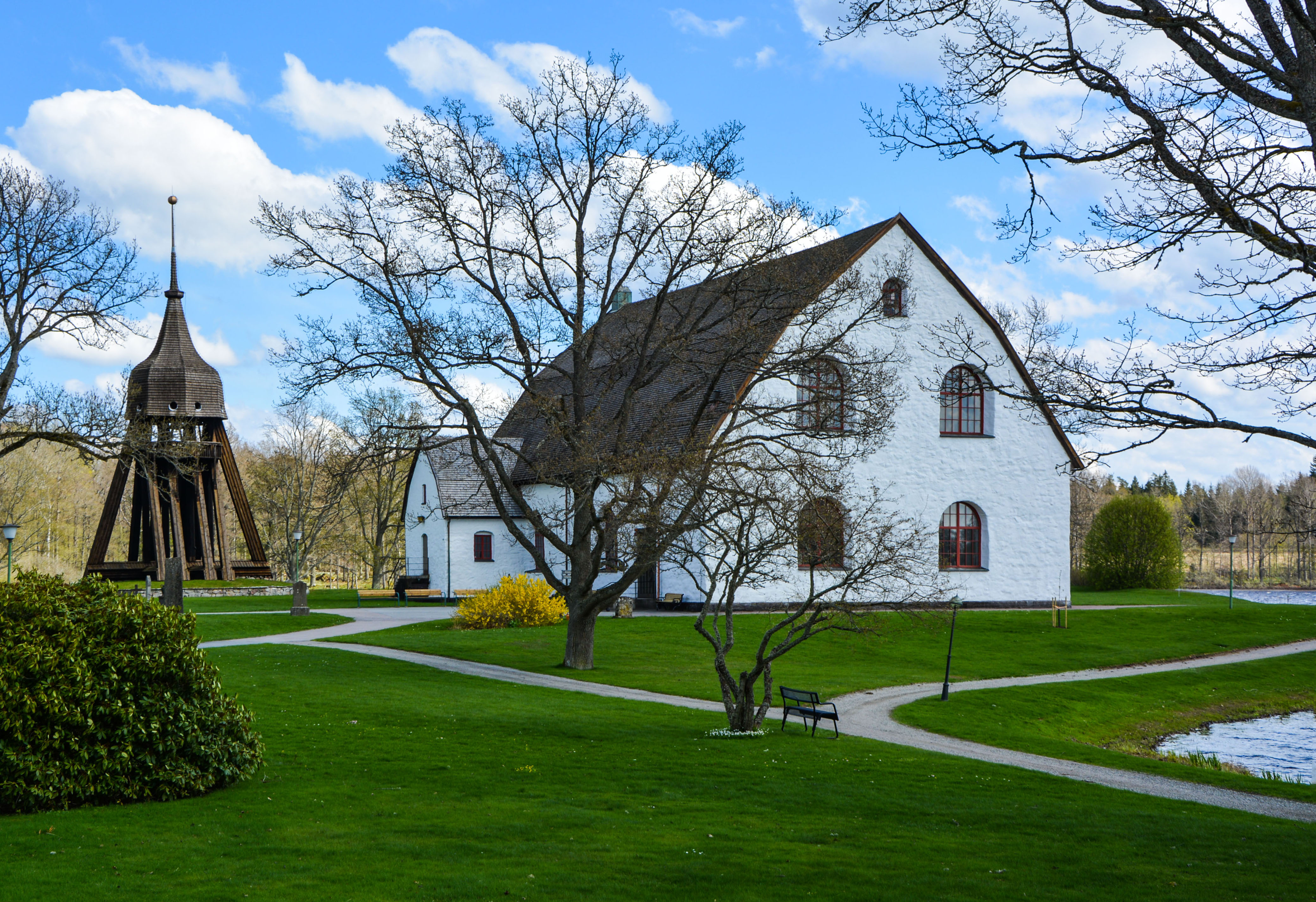 Vissefjärda Church. 1759, a decision was made to build a new Church. The Church was built in a distinctive style for Kalmar area. It was inaugurated on February 28, 1773 by Bishop Karl Gustav Schröder.